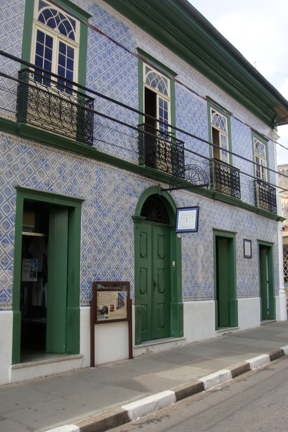 Energy Museum at Itu, Sao Paulo, Brazil. Museu da Energia em Itu, no Eixo Histórico, São Paulo, Brasil.